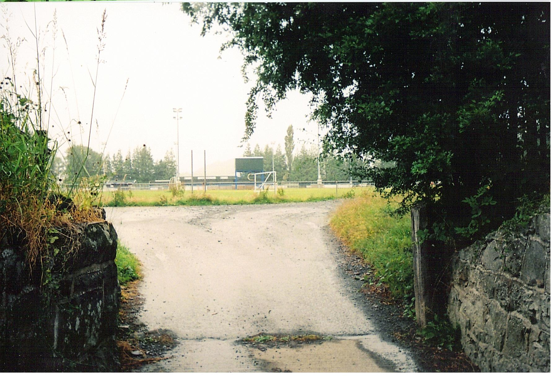 A picture I took of the village of Caersws's soccer ground/football pitch on my holiday there in 2010. I donate it to the public domain.